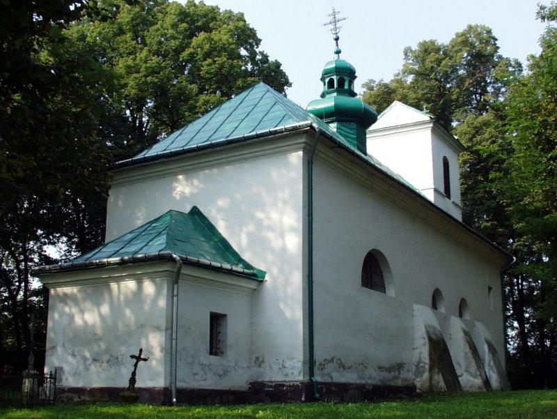 Nowe Sady (Poland), Greek Catholic church